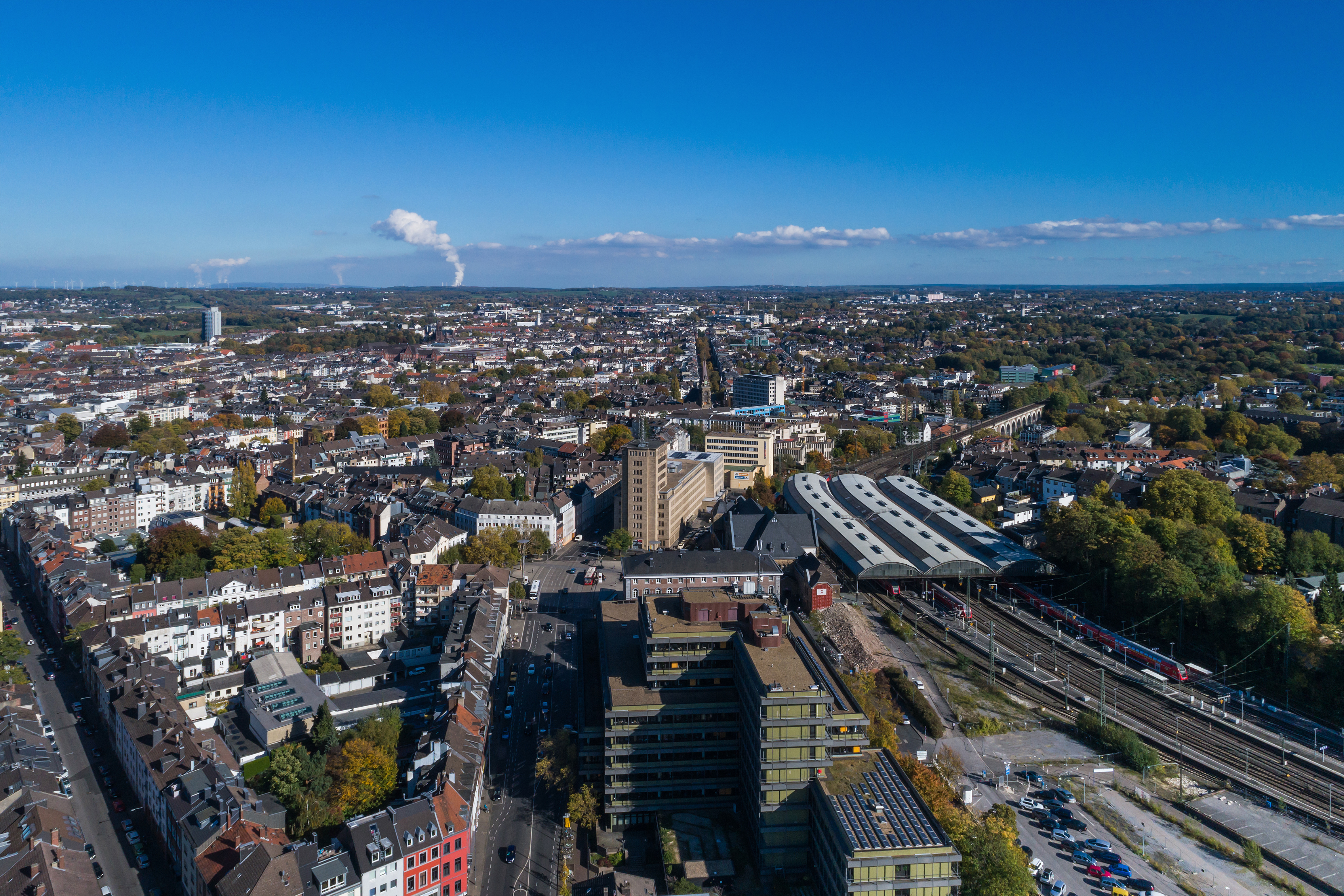 Aerial photo of Aachen (Germany)